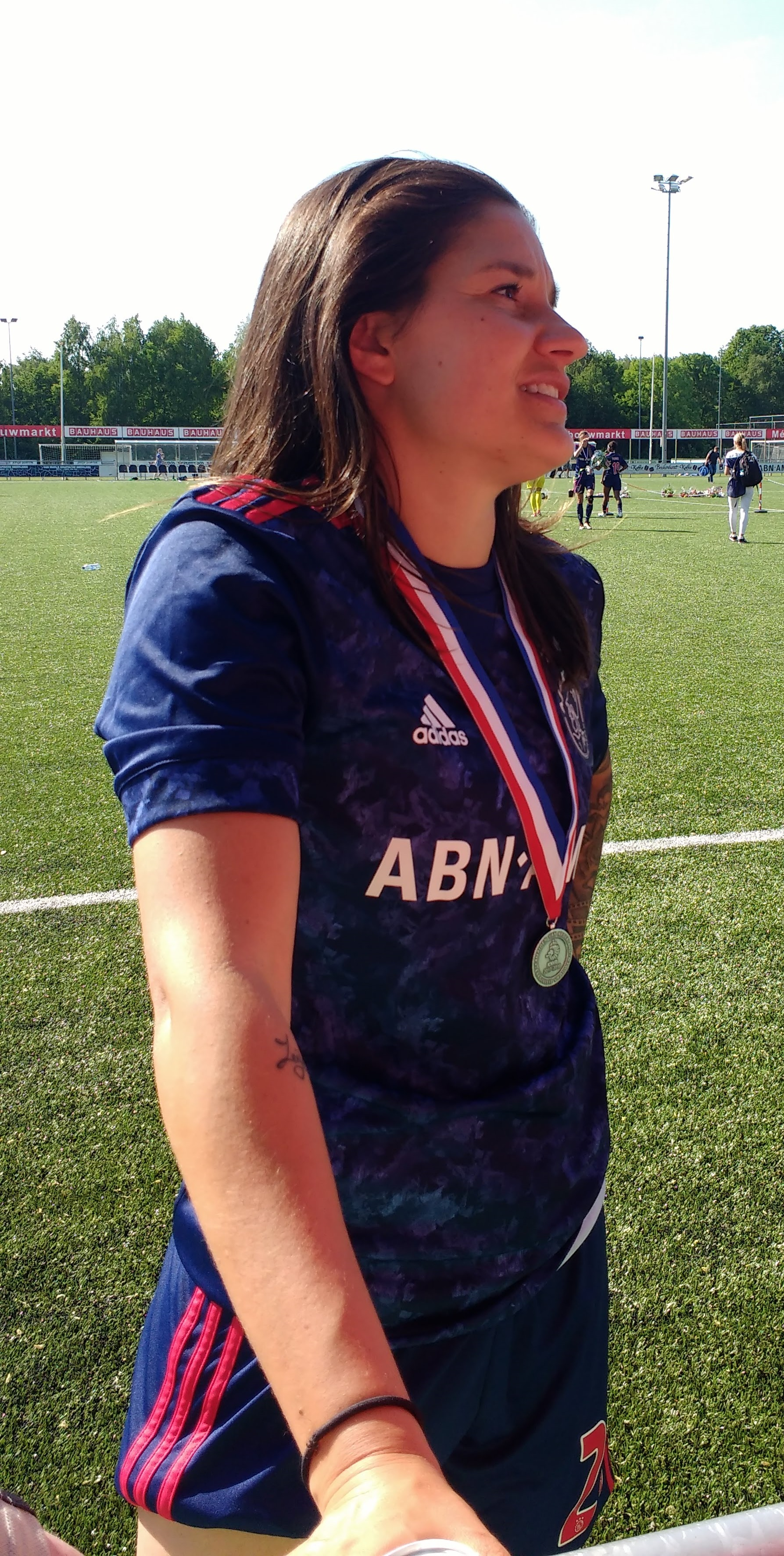 Ajax Vrouwen player, immediately after the championship game against fc Twente Vrouwen, 21 may 2018 in Hengelo, NL